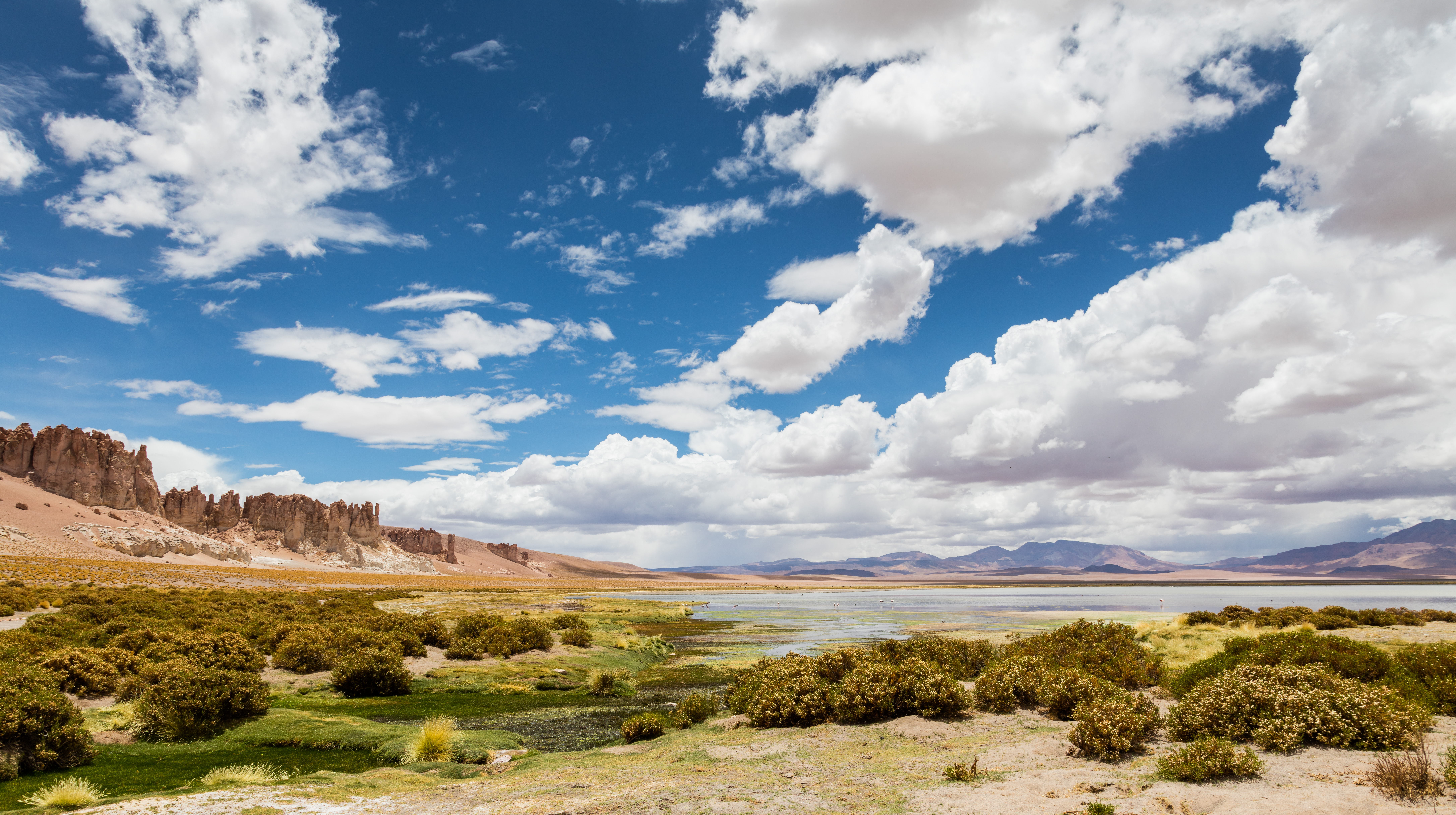 Panoramic view of the Tara Cathedrals (left) and the Tara salt flat in the Atacama Desert, northern Chile.